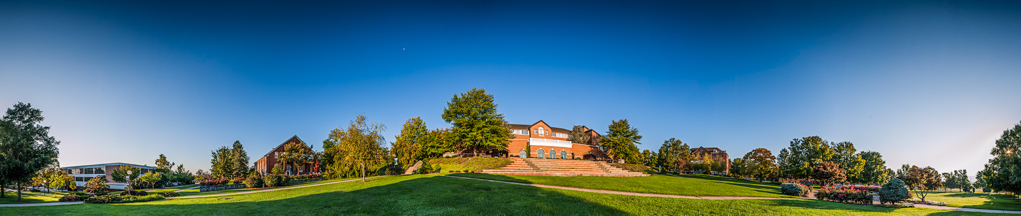 Panoramic view of Eastern Mennonite University